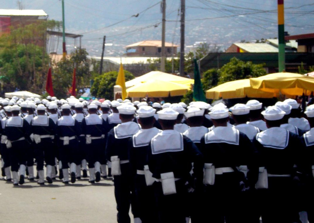 Marines marching in Cochabamba, Bolivia, during the military parade.